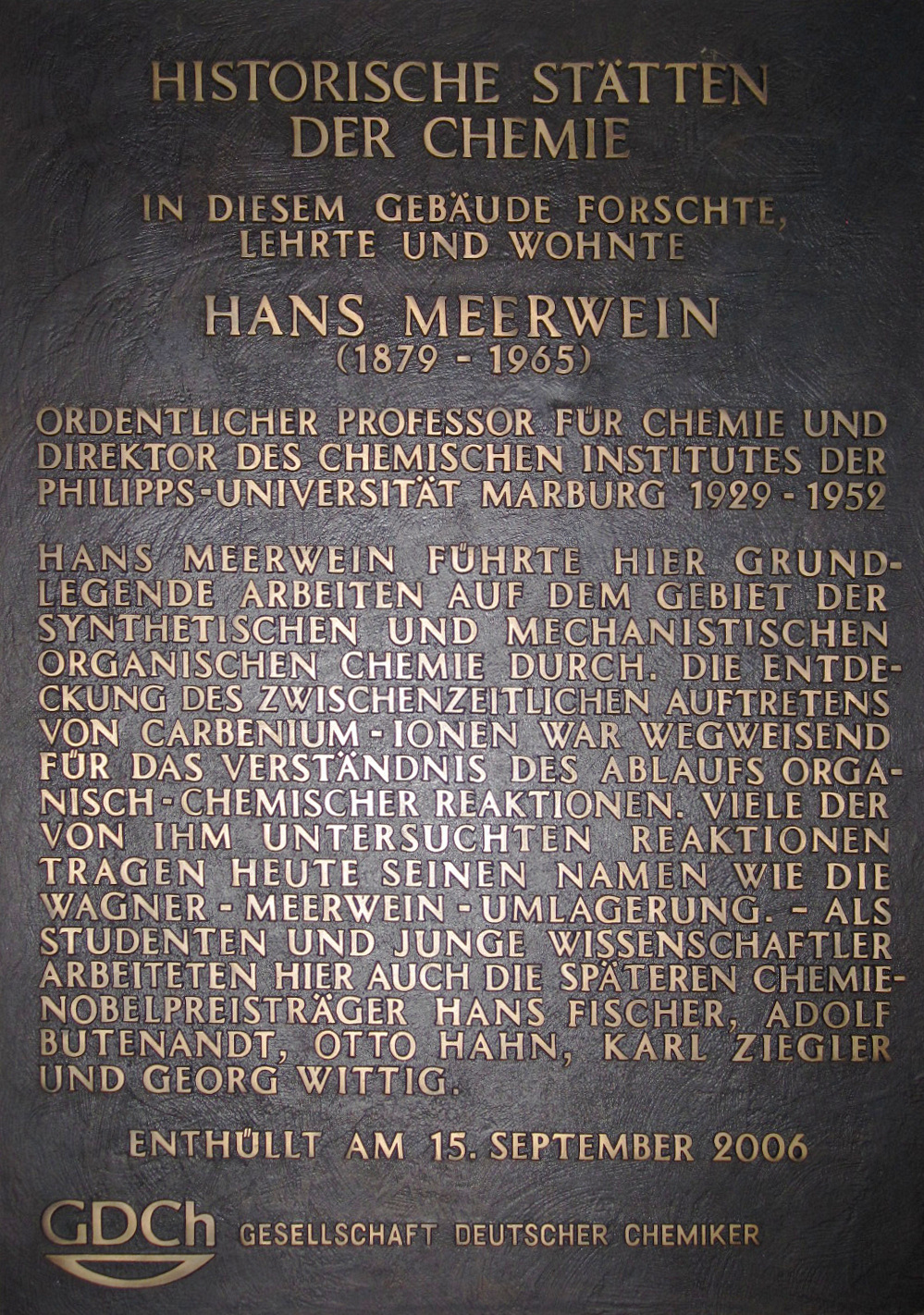 Bronze inscription in honour of Hans Meerwein, chemicist